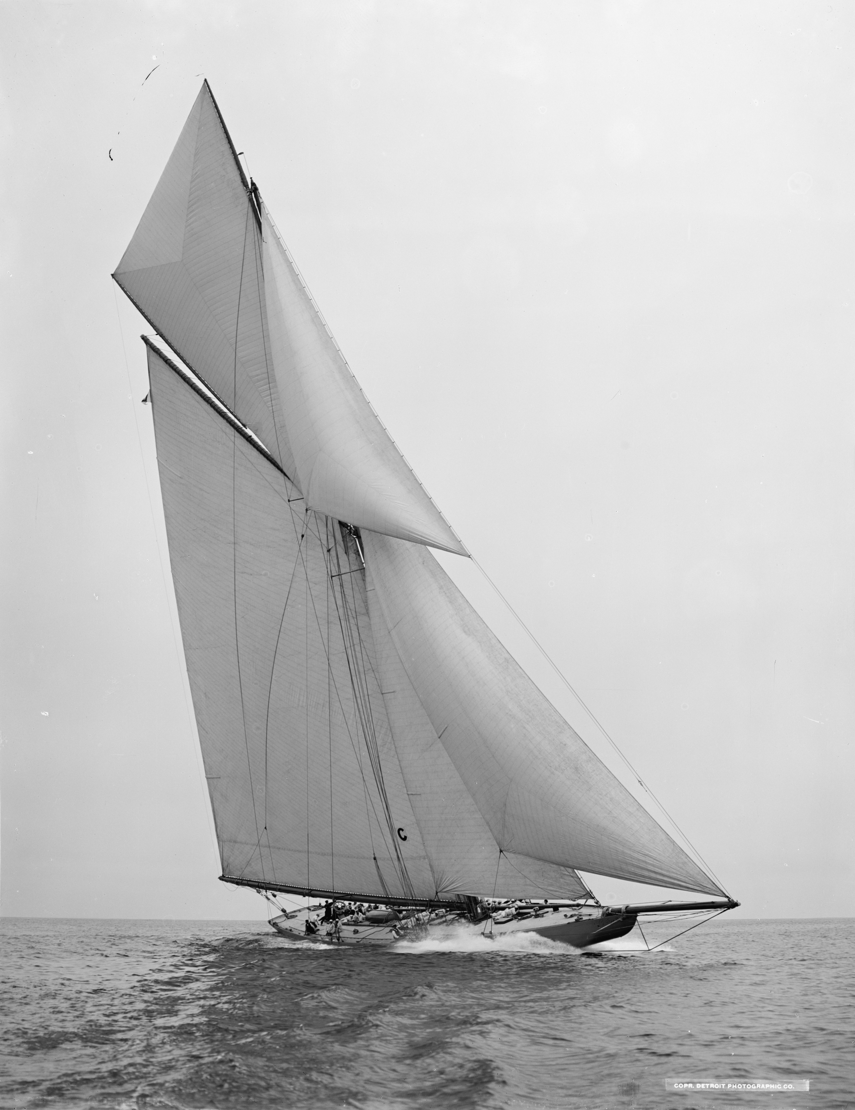 the 90 footer sloop Independence (Bowdoin B. Crowninshield, 1901) was Thomas W. Lawson's candidate for the 1901 America's Cup defence.